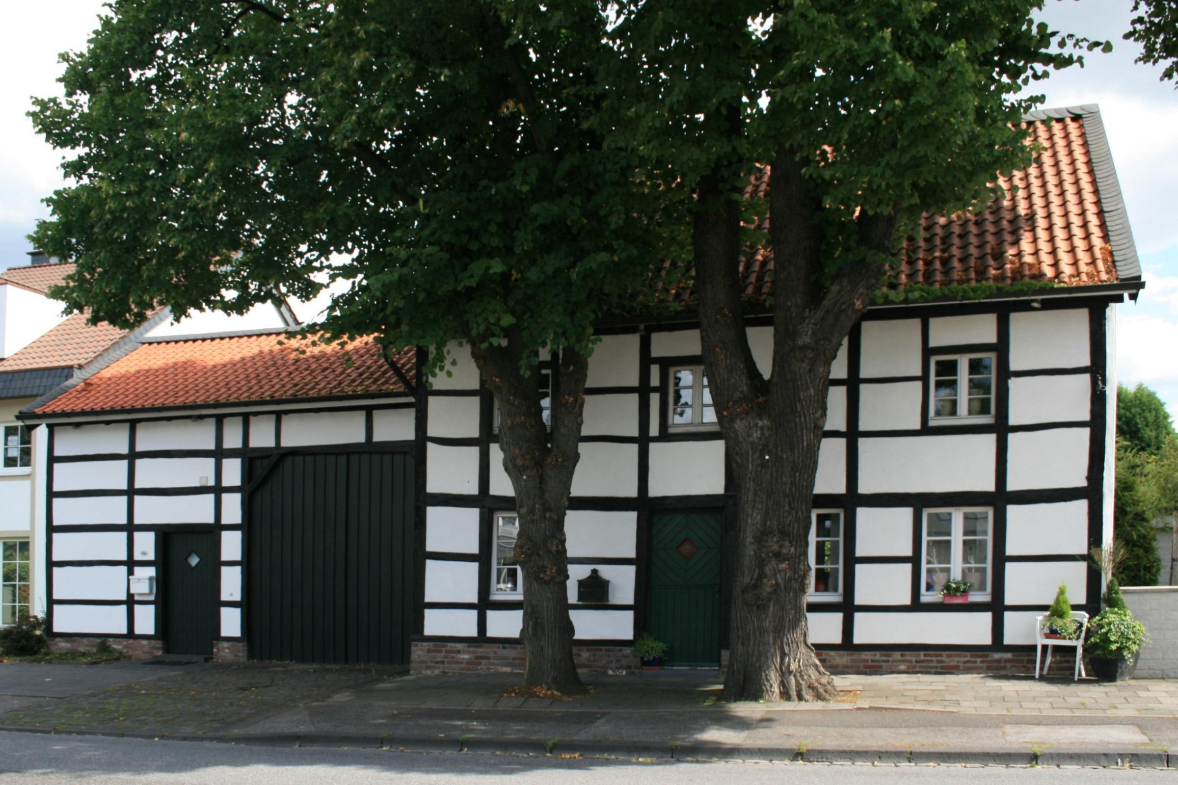 Cultural heritage monument No. B 055 in Mönchengladbach